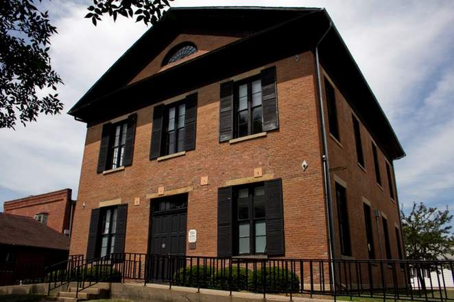 Historic Van Buren County Courthouse. Located in Keosauqua, Iowa it is the 2nd oldest courthouse in the U.S. still in use.